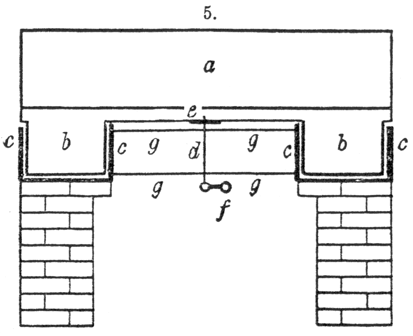 Fig. 5 from "On the Relative Motion of the Earth and the Luminiferous Ether".